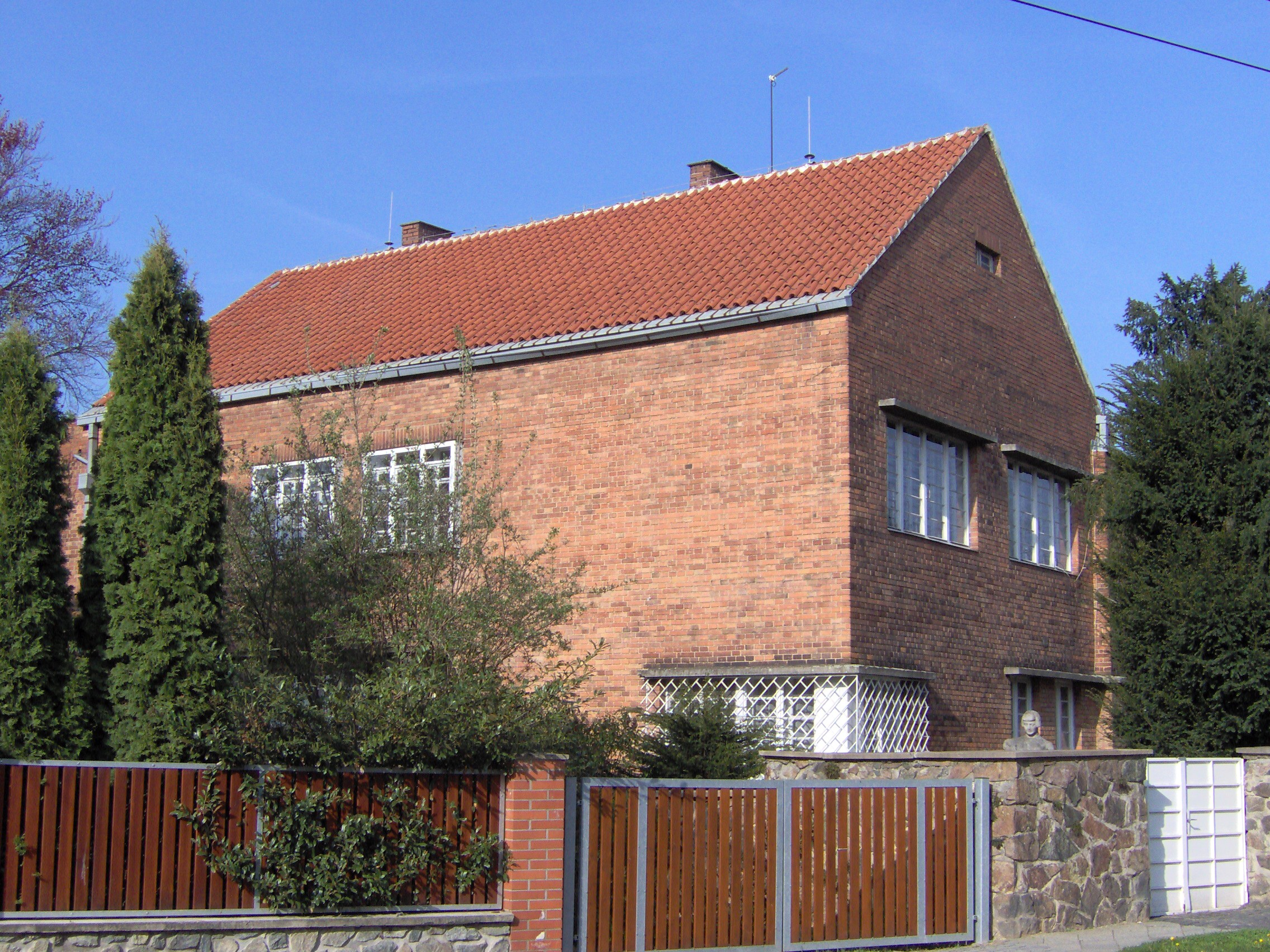 Own villa by Jindřich Kumpošt, Brno, Czech Republic